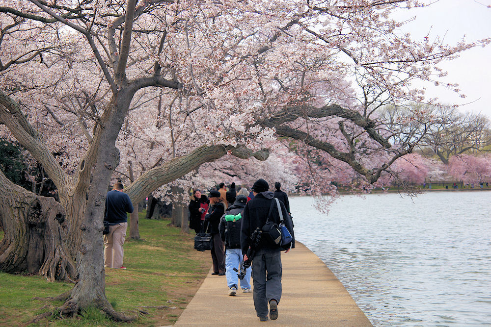 Cherry trees in bloom on the southwest bank of the Tidal Basin during the Cherry Blossom Festival, April 2011, in Washington, D.C.